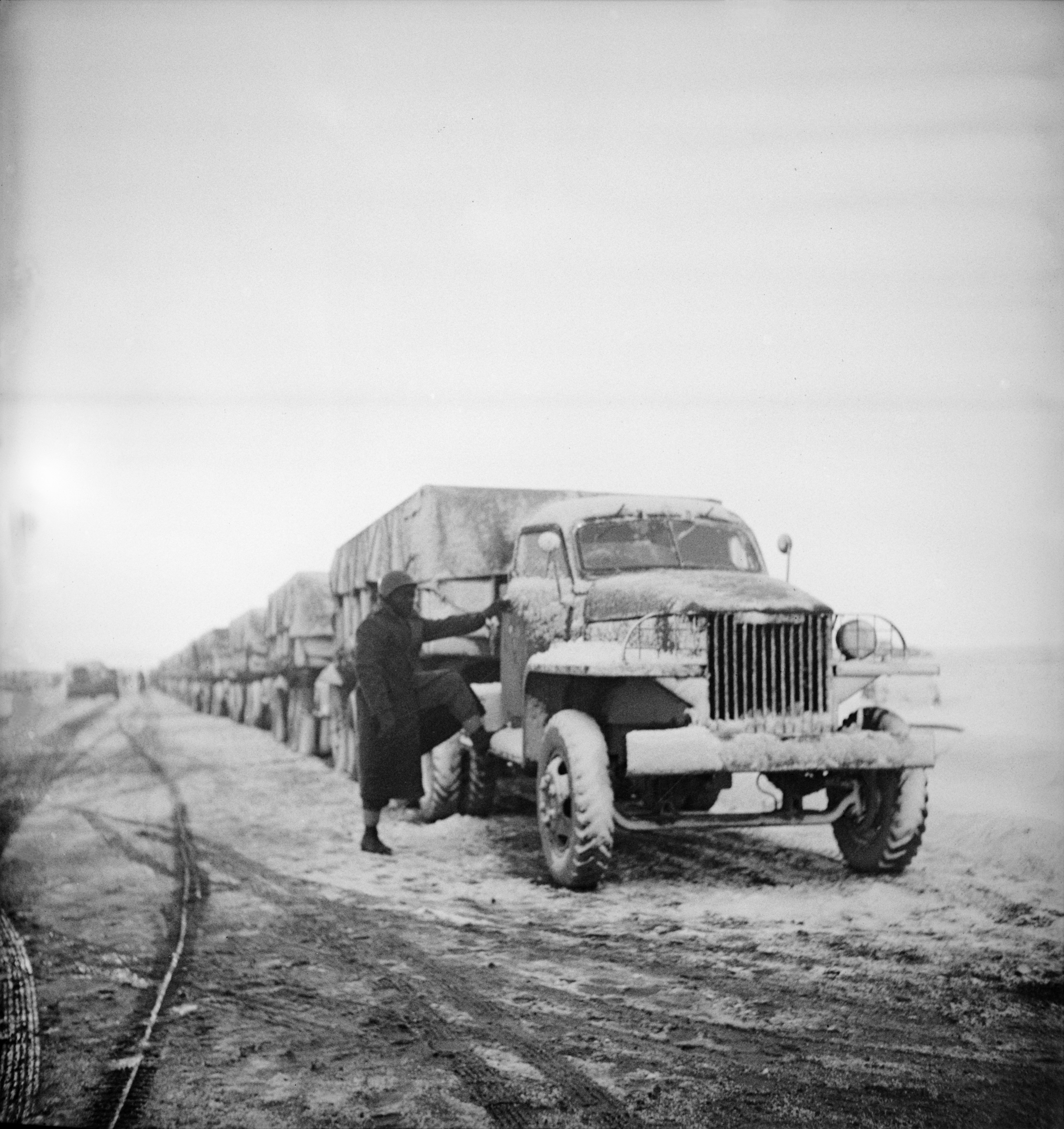 Somewhere in the Persian corridor. A United States Army truck convoy carrying supplies for Russia. Snow covered trucks start pushing through the mountain passes of Iran. 1943.